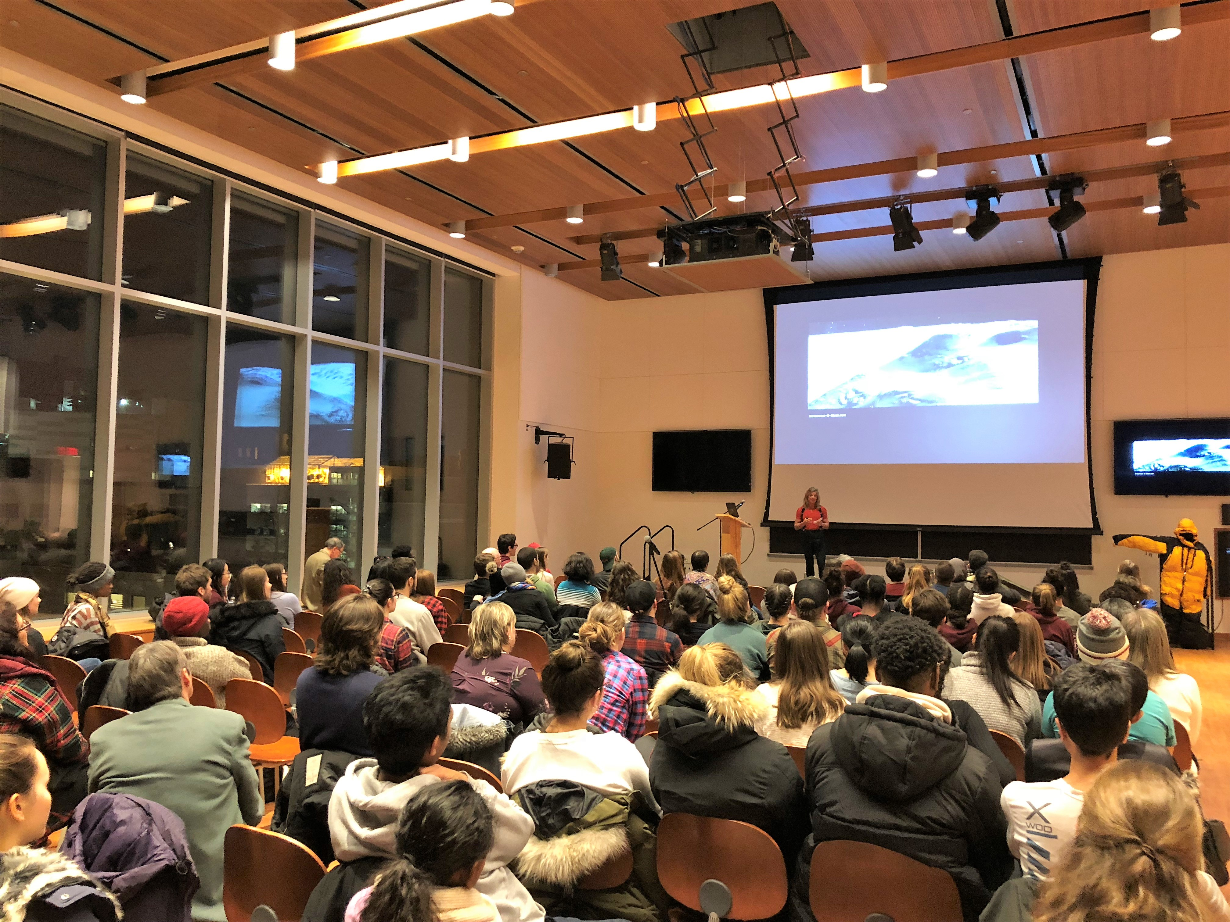 Logan Solo talk in front of university students (2018)